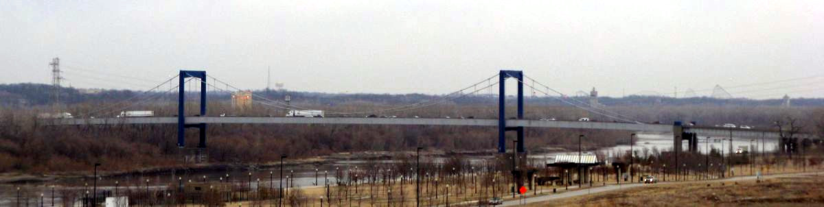 Paseo Bridge